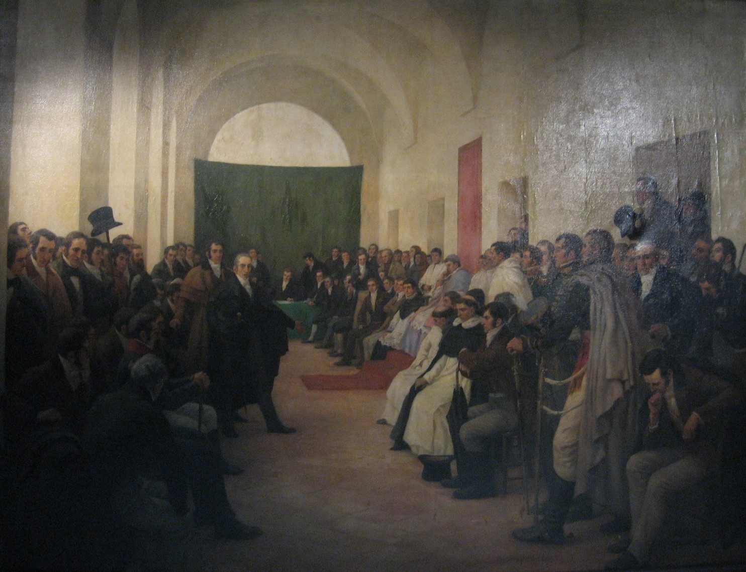 The "Cabildo Abierto" of may 22, 1810, in the city of Buenos Aires (now part of Argentina, then part of the Viceroyalty of the Río de la Plata), where it was decided to remove the viceroy Baltasar Hidalgo de Cisneros